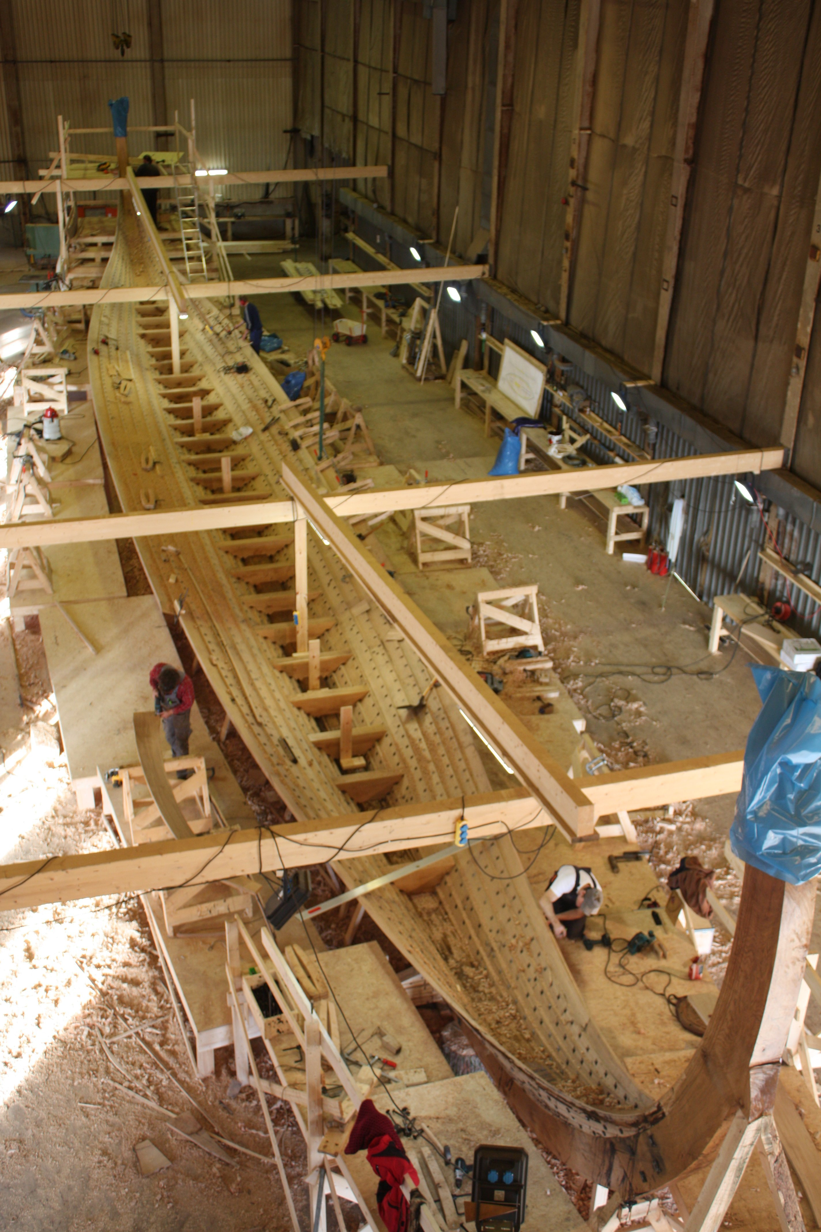 November 2010:The 9th strake are almost in place. When this is done, the ships bottom is also finished. Dragon Harald Fairhair (Norwegian: Draken Harald Hårfagre) is a large Viking longship that is being built in Western Norway.